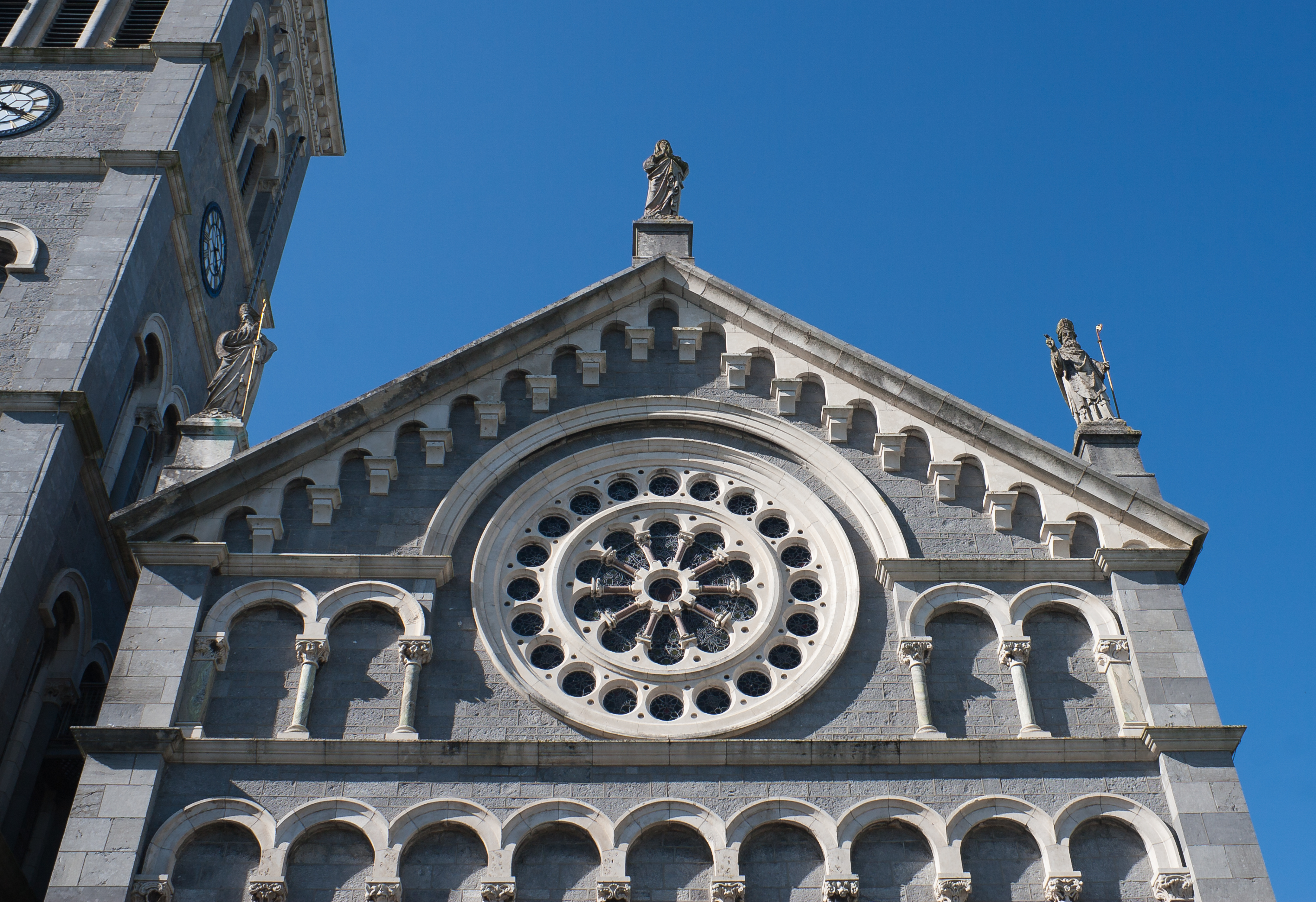 Upper section of the south façade including the rose window.